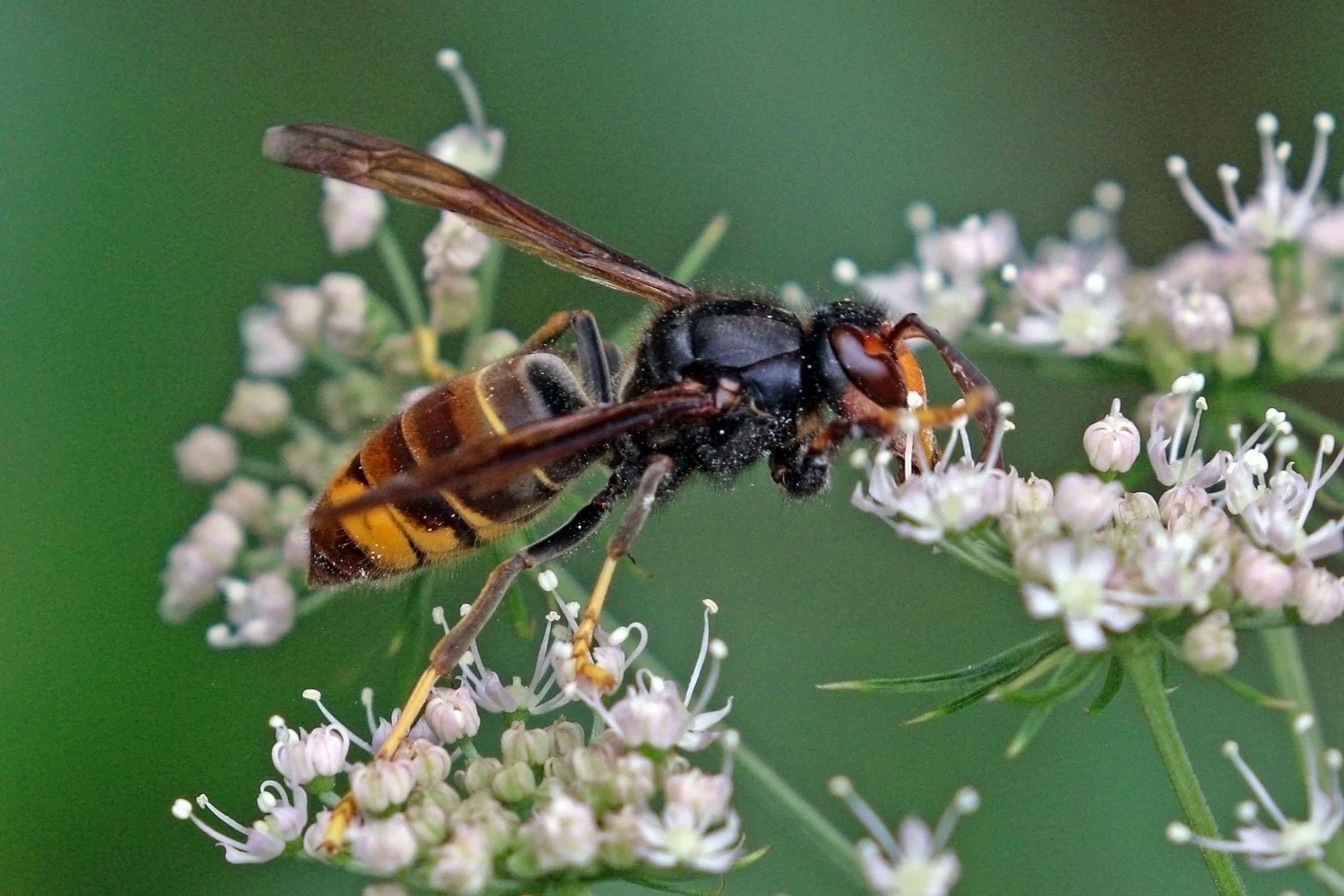 Asian hornet (Vespa velutina), Portugal